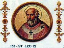 Portrait of Pope Leo IX in the Basilica of Saint Paul Outside the Walls, Rome